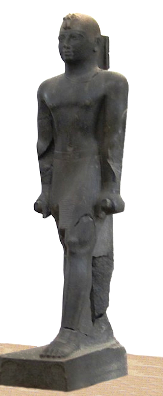 Taharqa among statues of Napatan kings